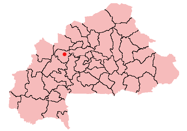 Toma, Burkina Faso Location Map; created with the GIMP. Made by User:Acntx.